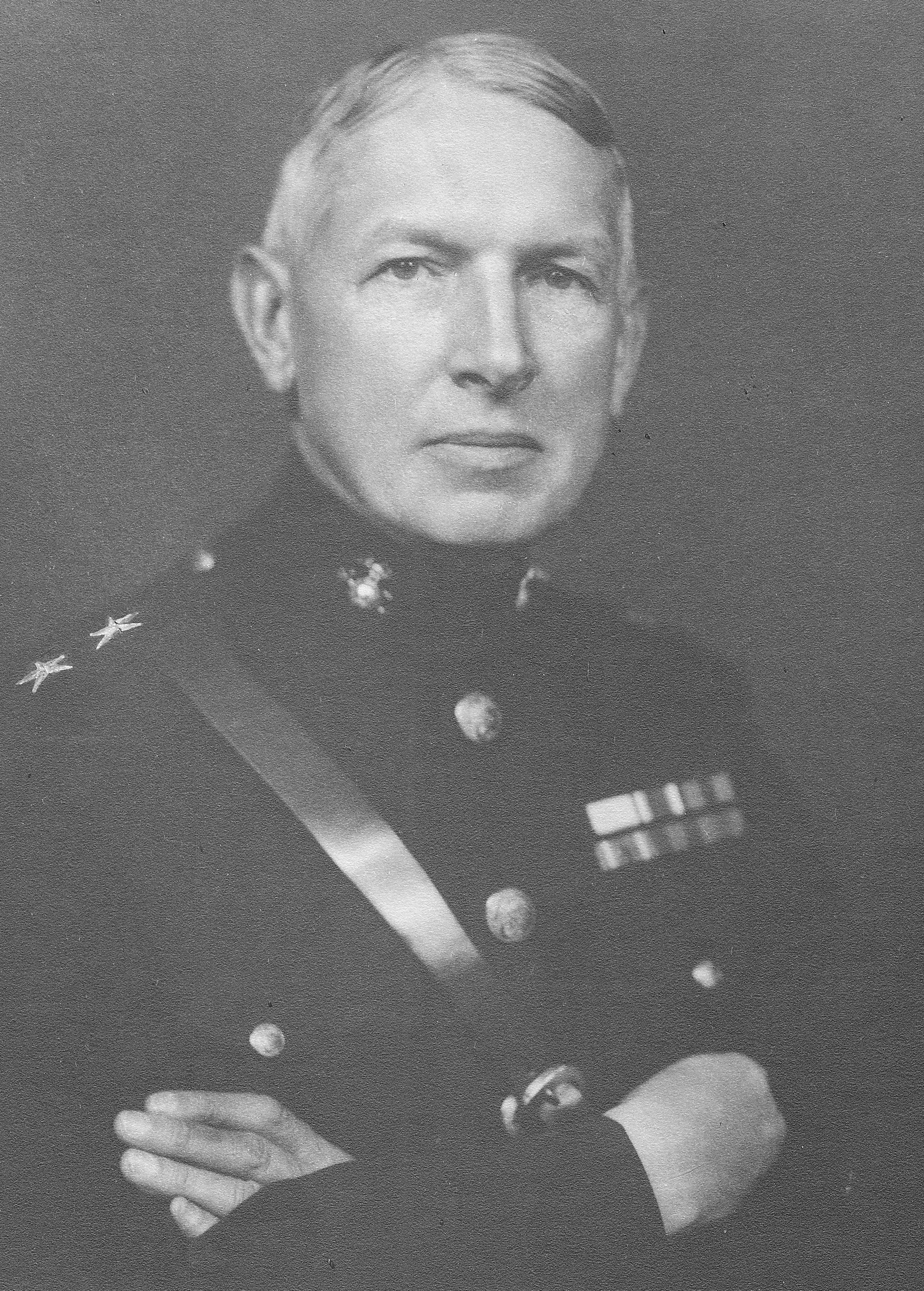 Official photograph of MajGen William P. Upshur